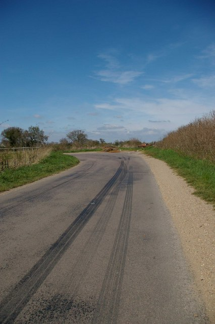 A bend in Church Road Bites Back! These skid-marks on Church Road near Frating bare witness to the comeuppance of some boy (or girl) racer, the marks continued behind the photographer for some long distance. According to my GPS they were 53m long (+/- 5m) according to the Highway Code the driver would have been doing 60mph when they hit the brakes. This is total tosh (if it was a modern car), the stopping distances in the Highway Code haven’t changed since I had my first copy for my cycling proficiency thingy in Cub Scouts in 1967. I would bet these happened on a dark night at about 80mph at the very least.